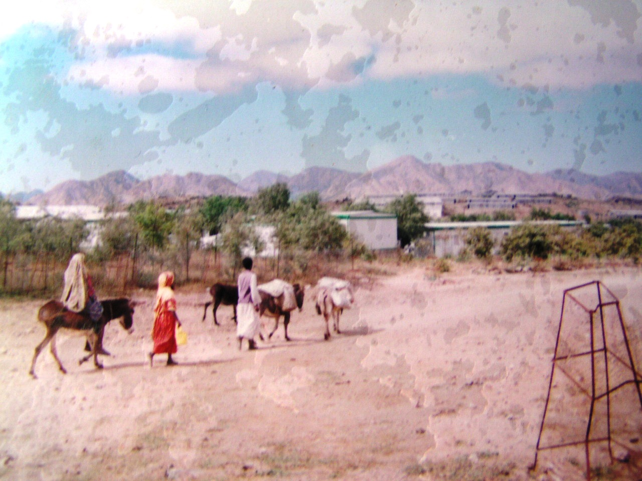 Nakfa is a small village near Keren in Eritea, North Africa.